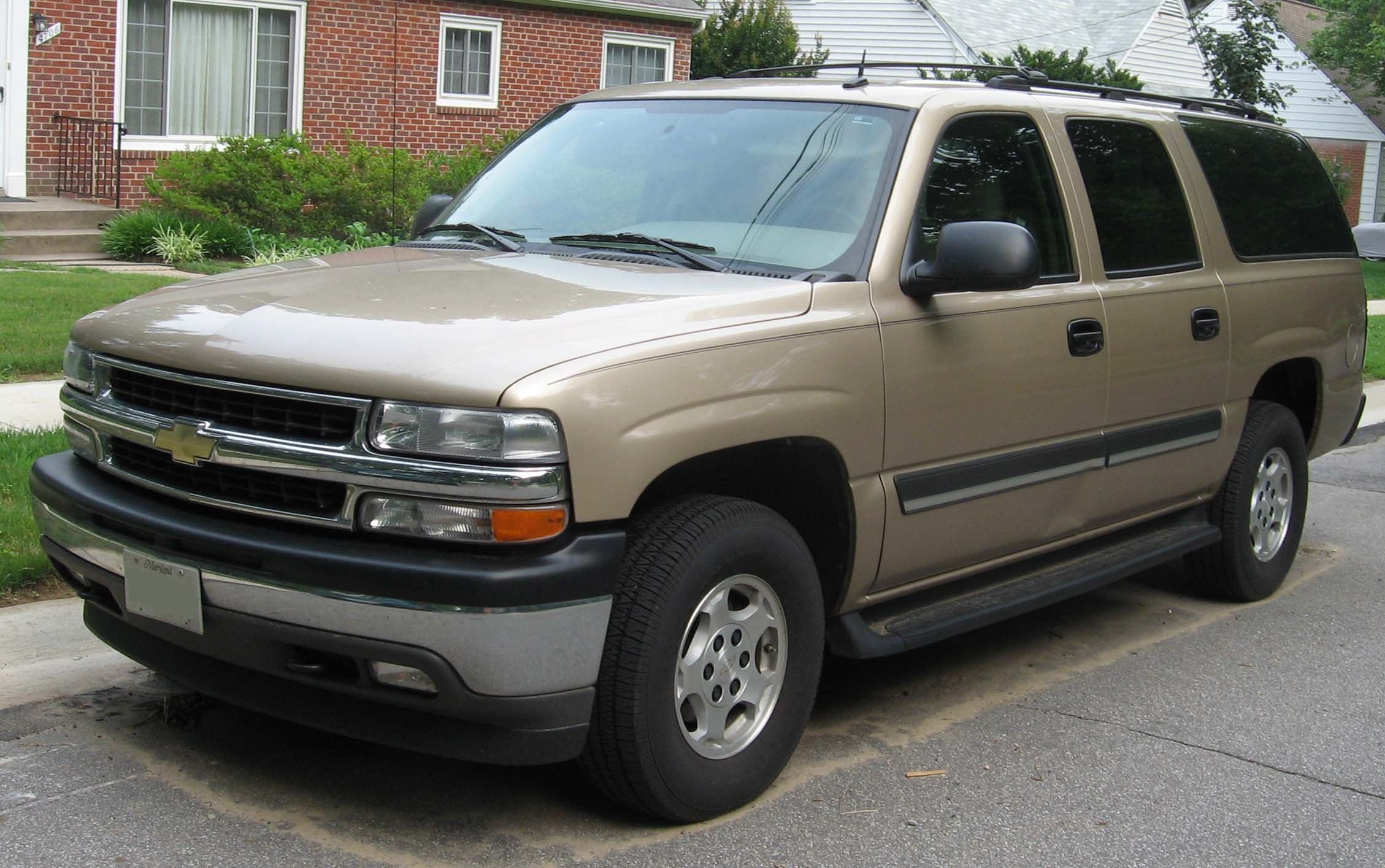 2000-2006 Chevrolet Suburban photographed in Kensington, Maryland, USA.